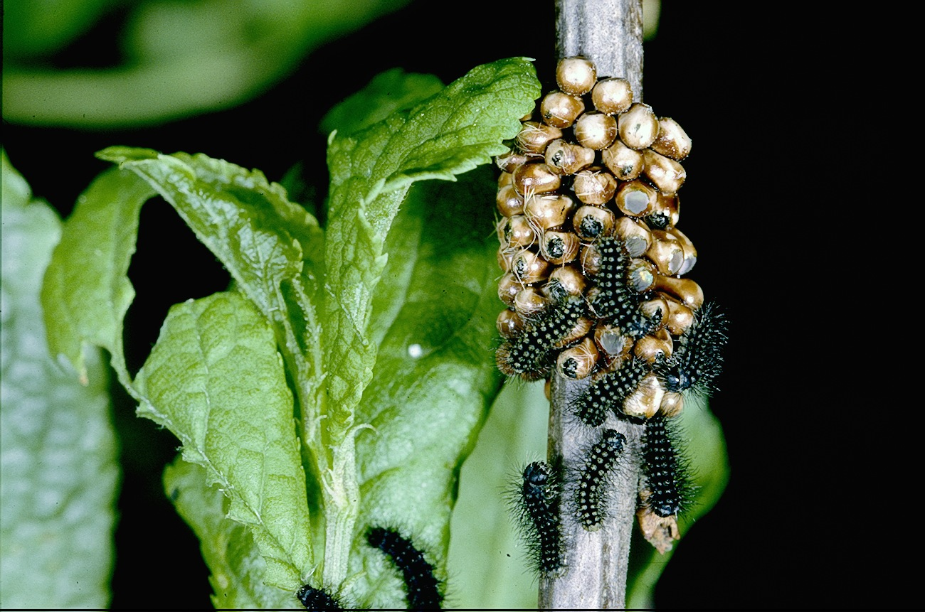 I am the author of this photo (personal photo library) made in Normandy France in 1991 by breeding cage for tracking the life cycle of several years. Cliché No. 2/11. We see the emergence of Saturnia Pavonia eggs laid the previous year. (Small Peacock night) Hétérocère Lepidoptera Saturniidae family. Original digital photograph slide.